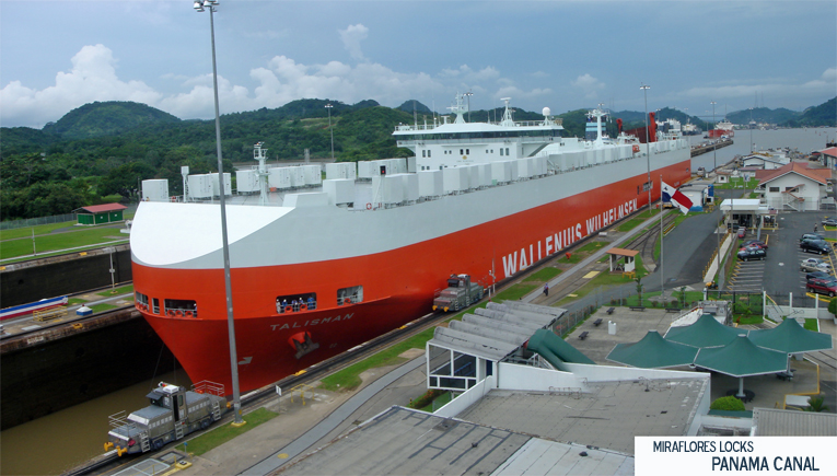 Panamax ship "Talisman" at the Miraflores Locks of Panama Canal